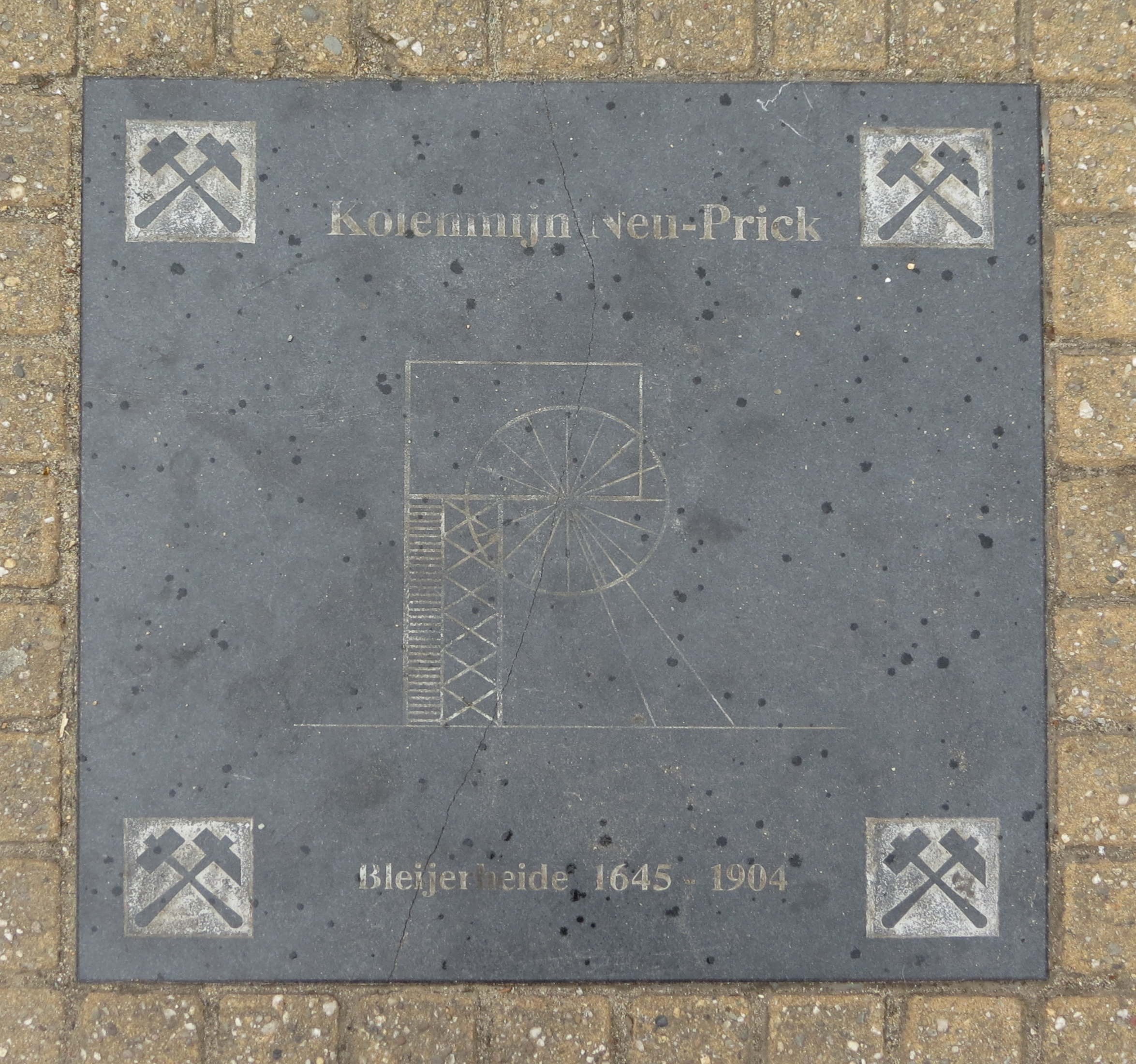 Monument at the site of the former coal mine Neuprick in Kerkrade, The Netherlands